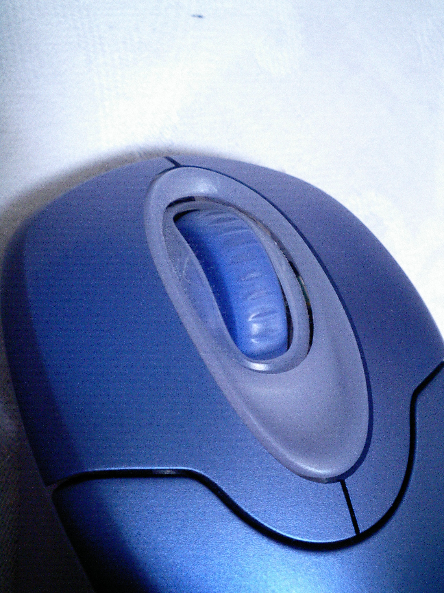 Tilt wheel (Microsoft Wireless Optical Mouse 2.0)